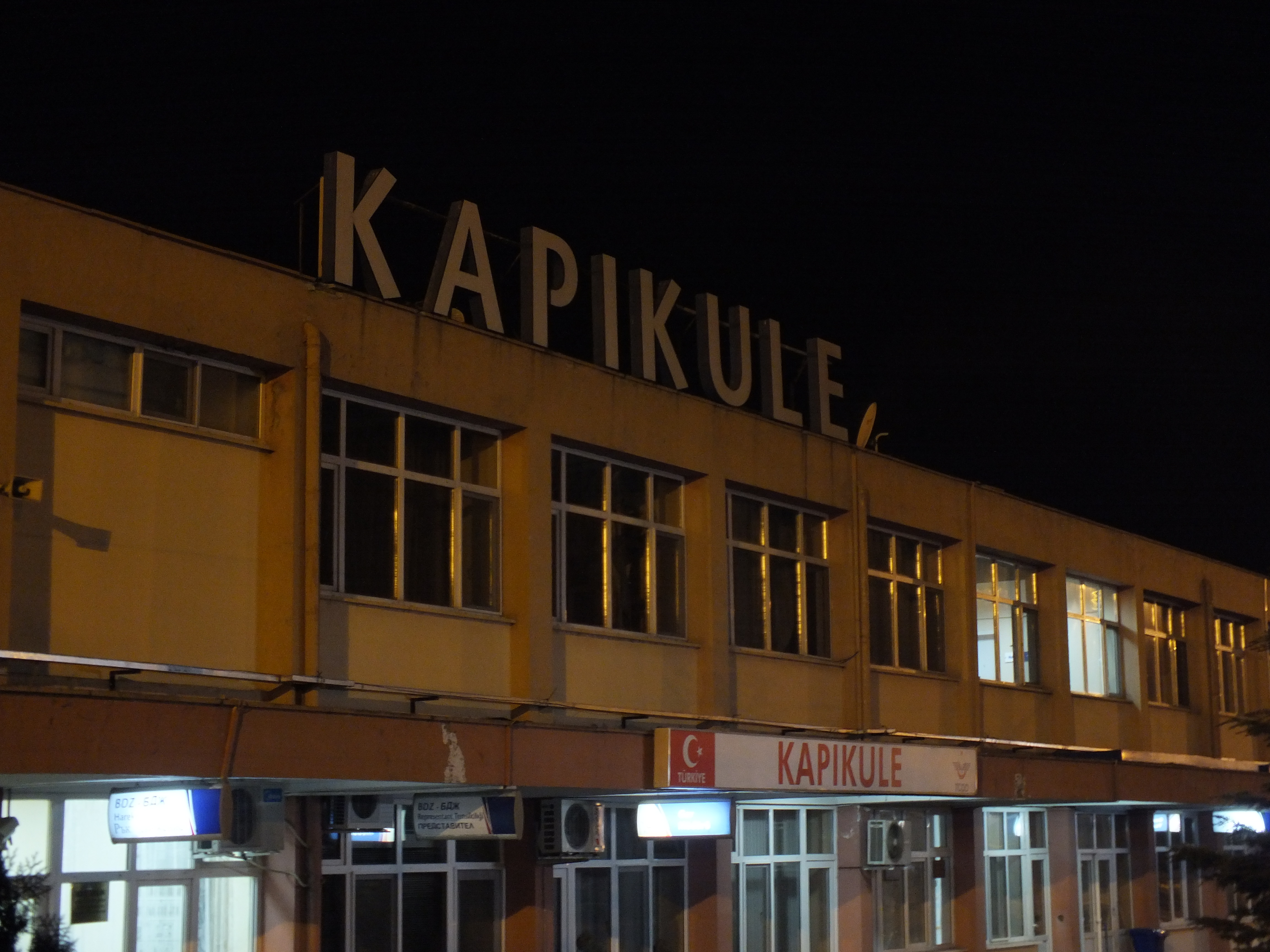 Kapikule railway station building as viewed trackside.